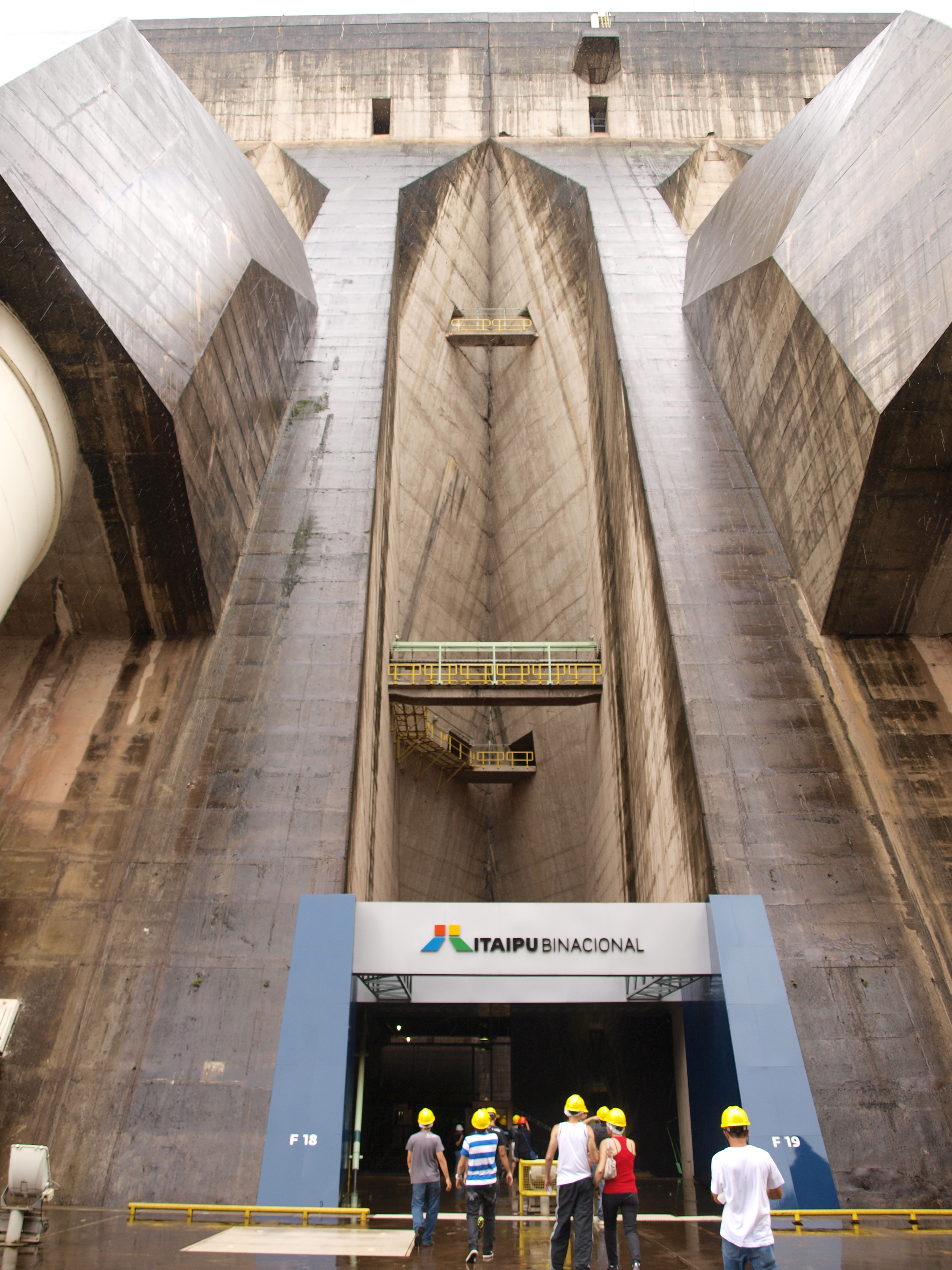 Itaipu Binational Hydroelectric Plant